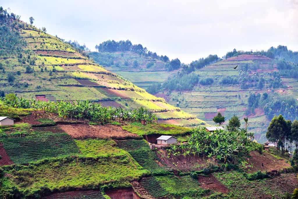 After the Rainforest, Uganda